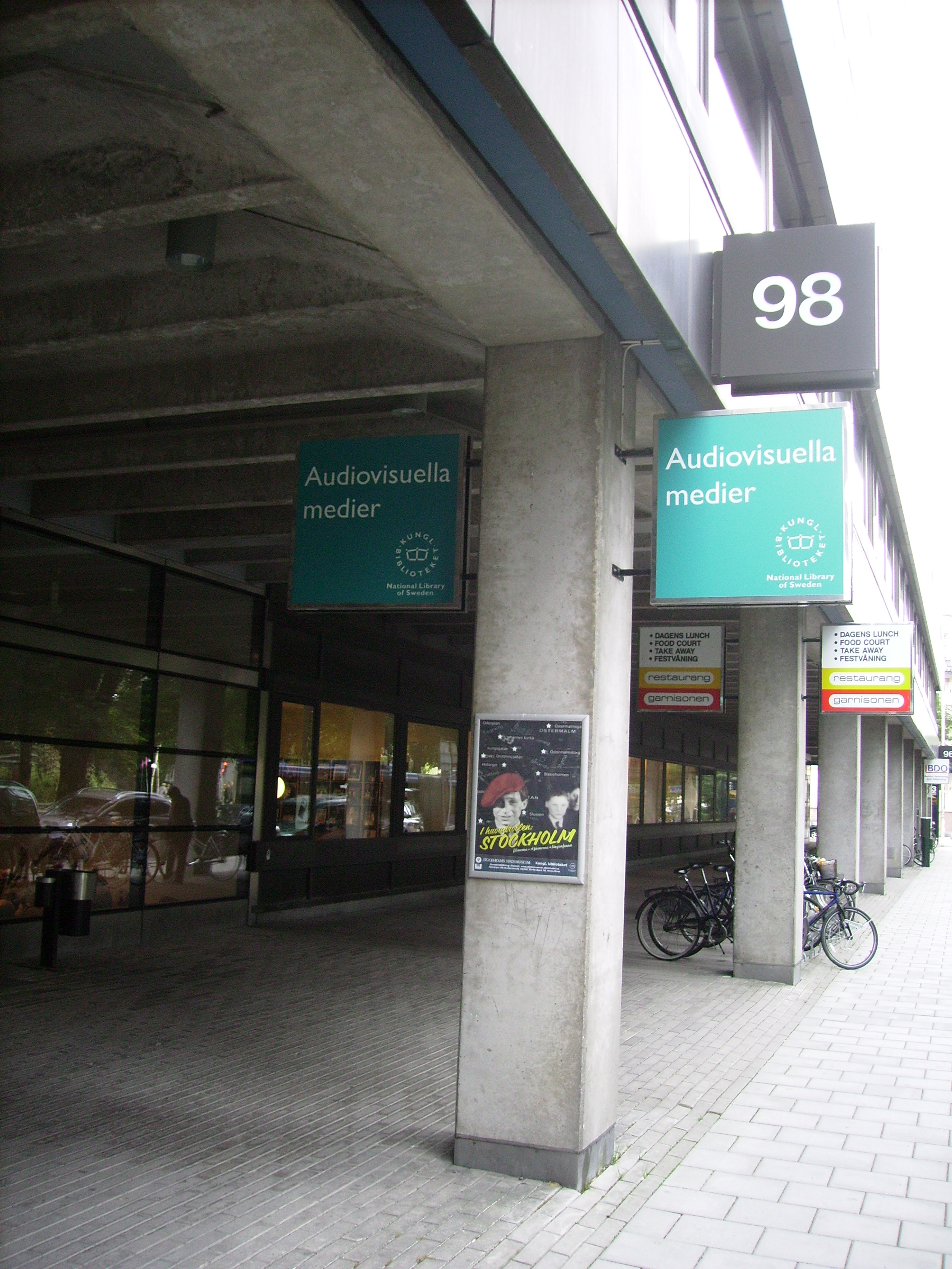 Picute of Audiovisuella medier (archive) in Stockholm